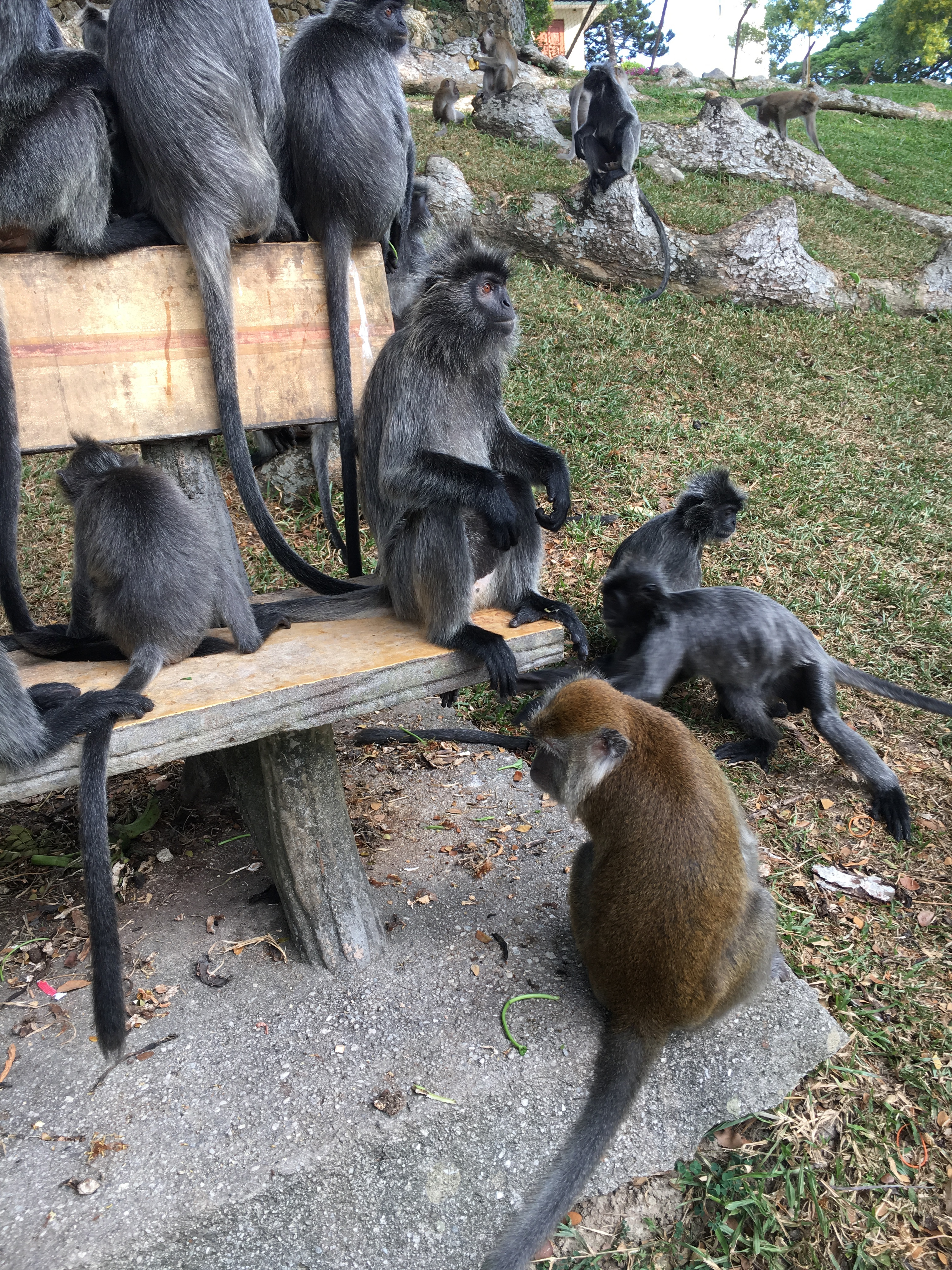 Selangor slivered langurs and a long-tailed macaque at Bukit Melawati in Kuala Selangor, Malaysia